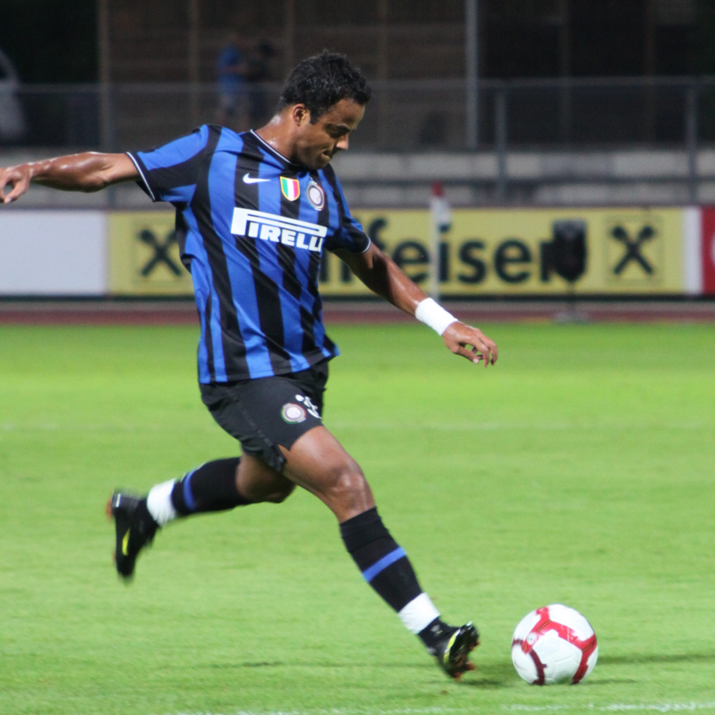 Mancini - F.C. Internazionale Milano it: Mancini - Football Club Internazionale Milano